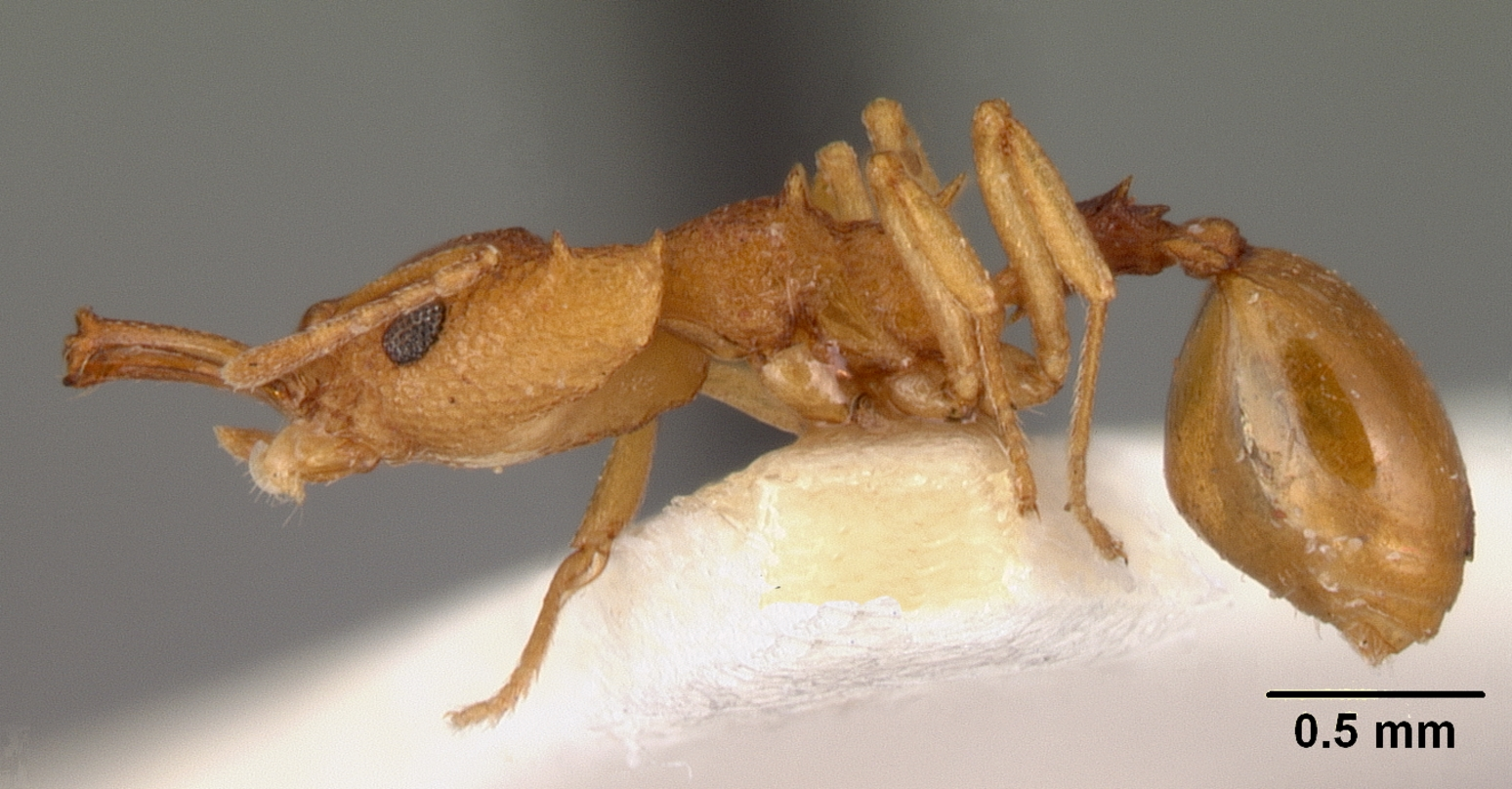 Profile view of ant Microdaceton exornatum specimen casent0101453.